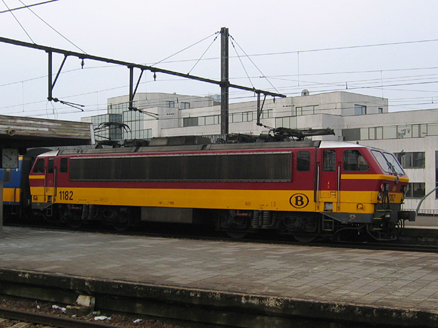 SNCB electric locomotive 1182 at Antwerpen Bercham with a through train to the Netherlands